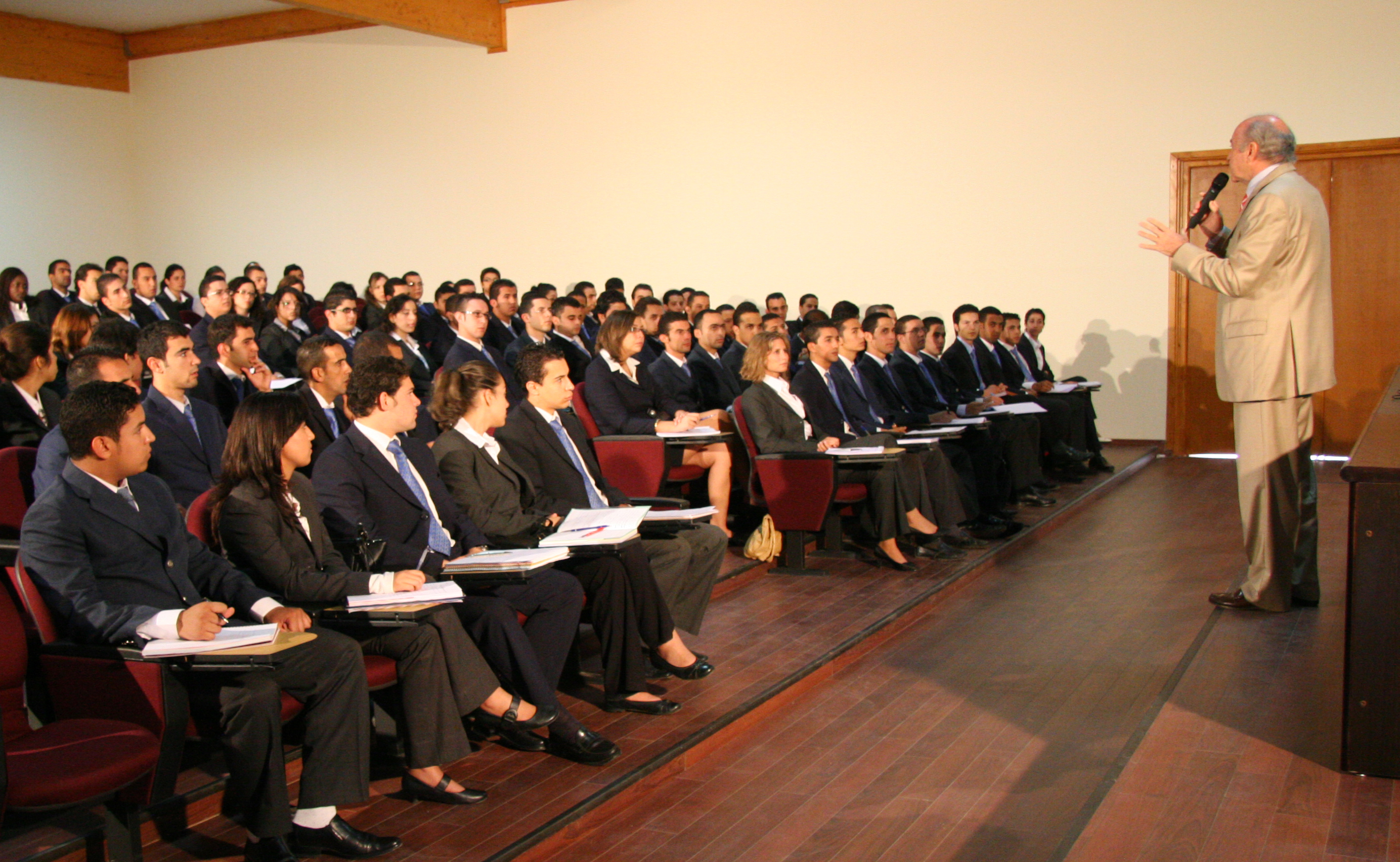 UPM University